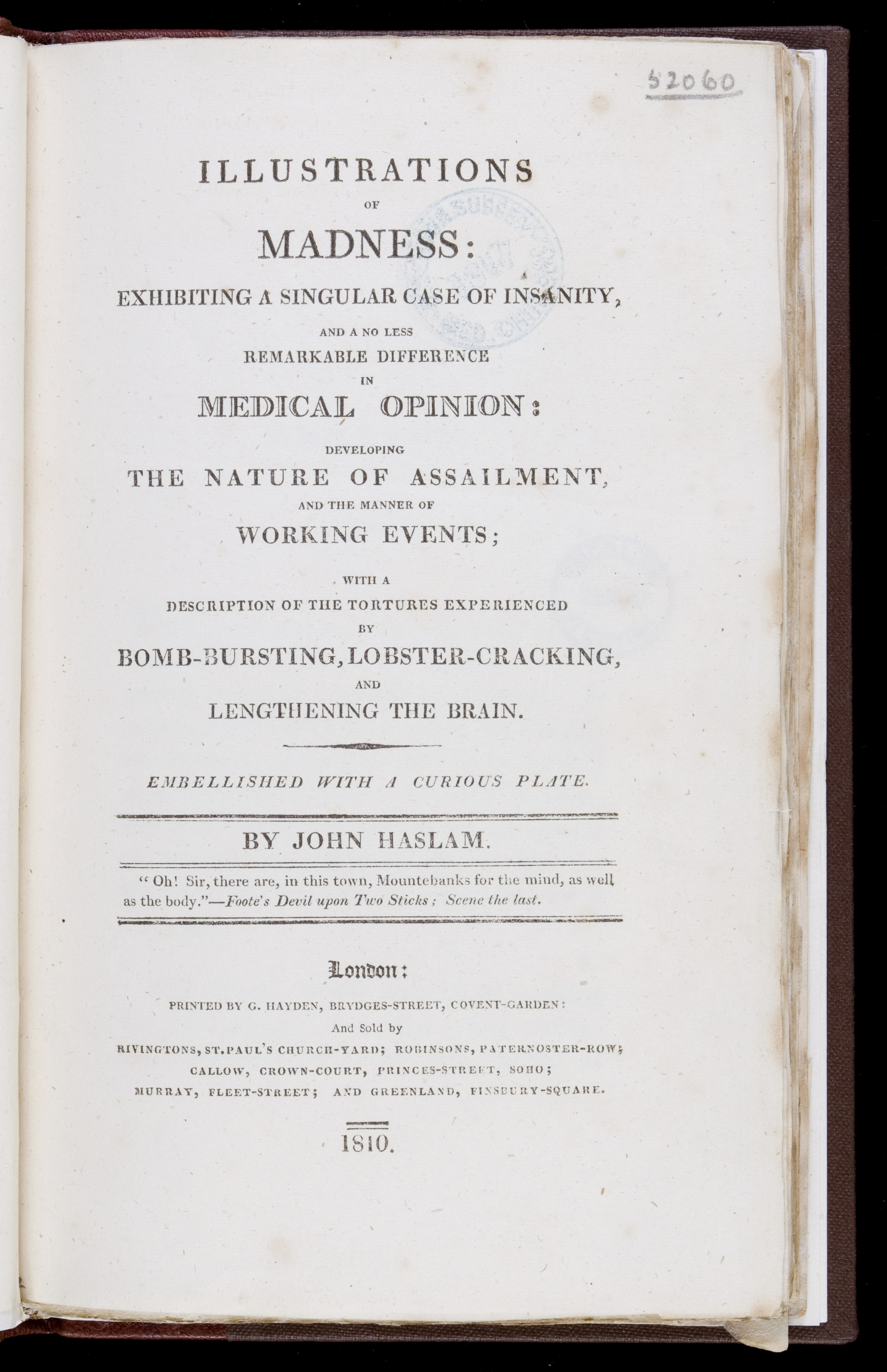 Title page of "Illustrations of madness: exhibiting a singular case of insanity and a no less remarkable difference in medical opinion ... with a description of the tortures experienced [by the patient, James Tilly Matthews, in hallucinations]". Rare Books